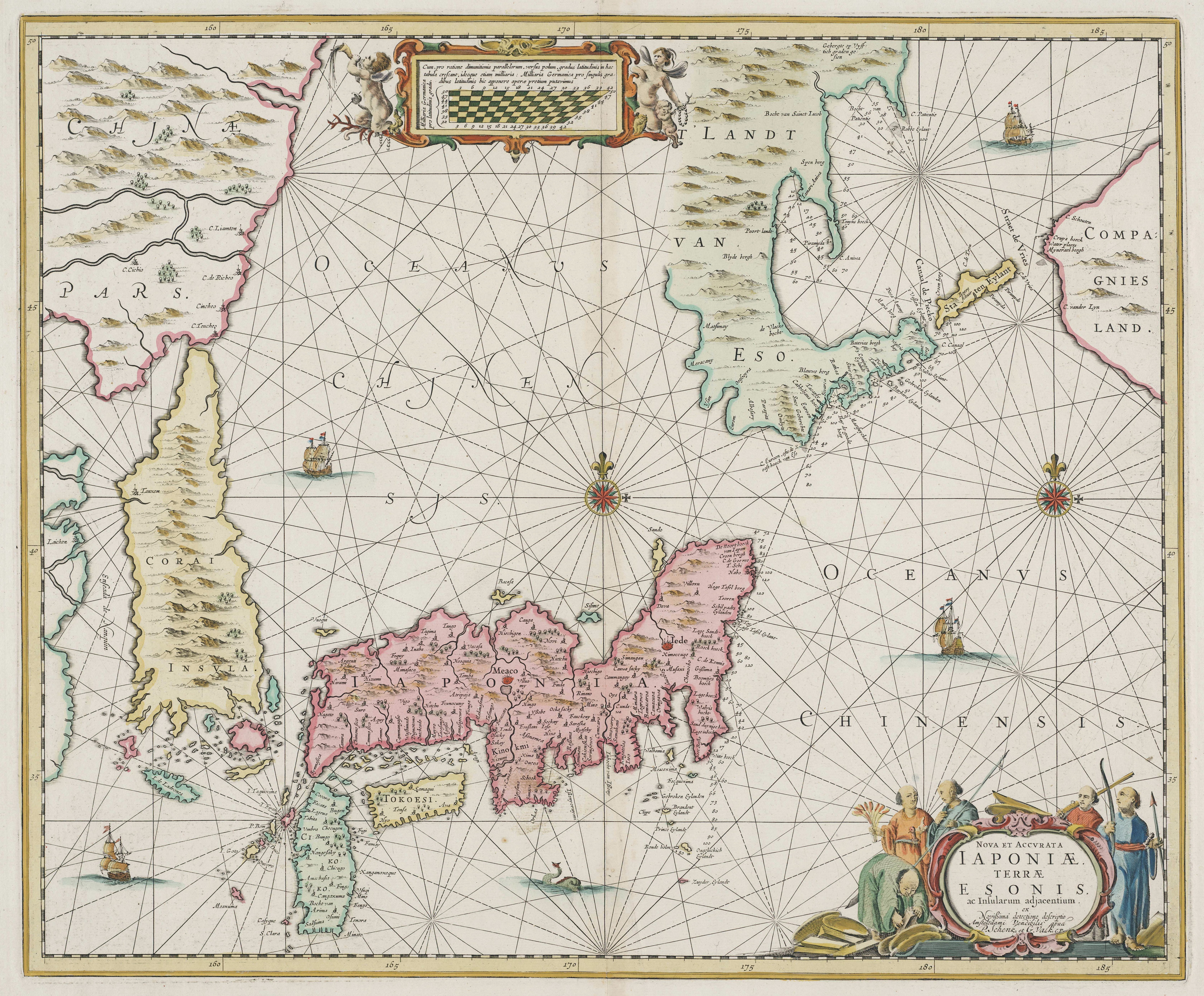 Nova et accurata Iaponiae. Map by Jan Janssonius based on the exploration of the Dutch vessels of Maarten Gerritszoon Vries in 1643 edition 1700 45.5 x 55.0 cm copper engraving